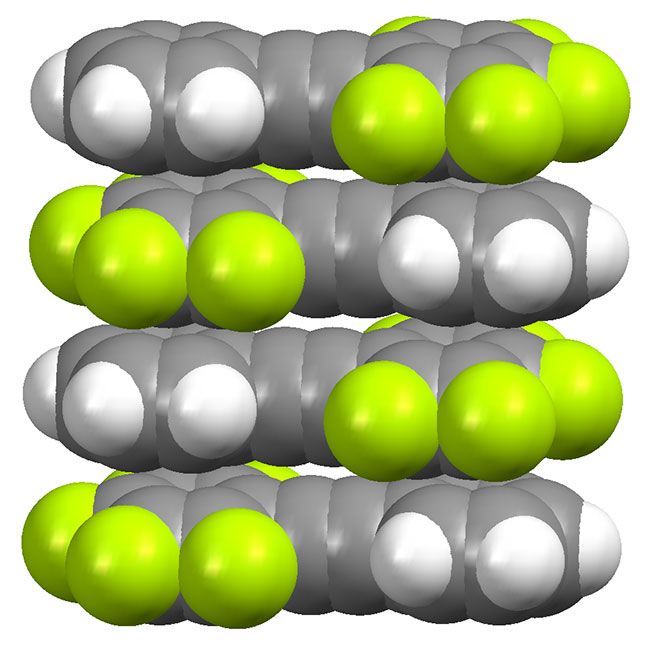 Illustration of the packing of molecules in the crystal structure of a molecule containing aromatic fluorocarbon and aromatic hydrocarbon moieties. The picture was created by user TBChem and uploaded on 8/15/2007. The picture was created using Mercury from Cambridge Structural Database entry ASIJIV. The literature reference for the compound is C.E. Smith, P.S. Smith, R.Ll. Thomas, E.G. Robins, J.C. Collings, Chaoyang Dai, A.J. Scott, S. Borwick, A.S. Batsanov, S.W. Watt, S.J. Clark, C. Viney, J.A.K. Howard, W. Clegg, T.B. Marder, J. Mater. Chem. 2004, 14, 413. Atoms are colored according to element type: carbon (grey), fluorine (green), hydrogen (white).